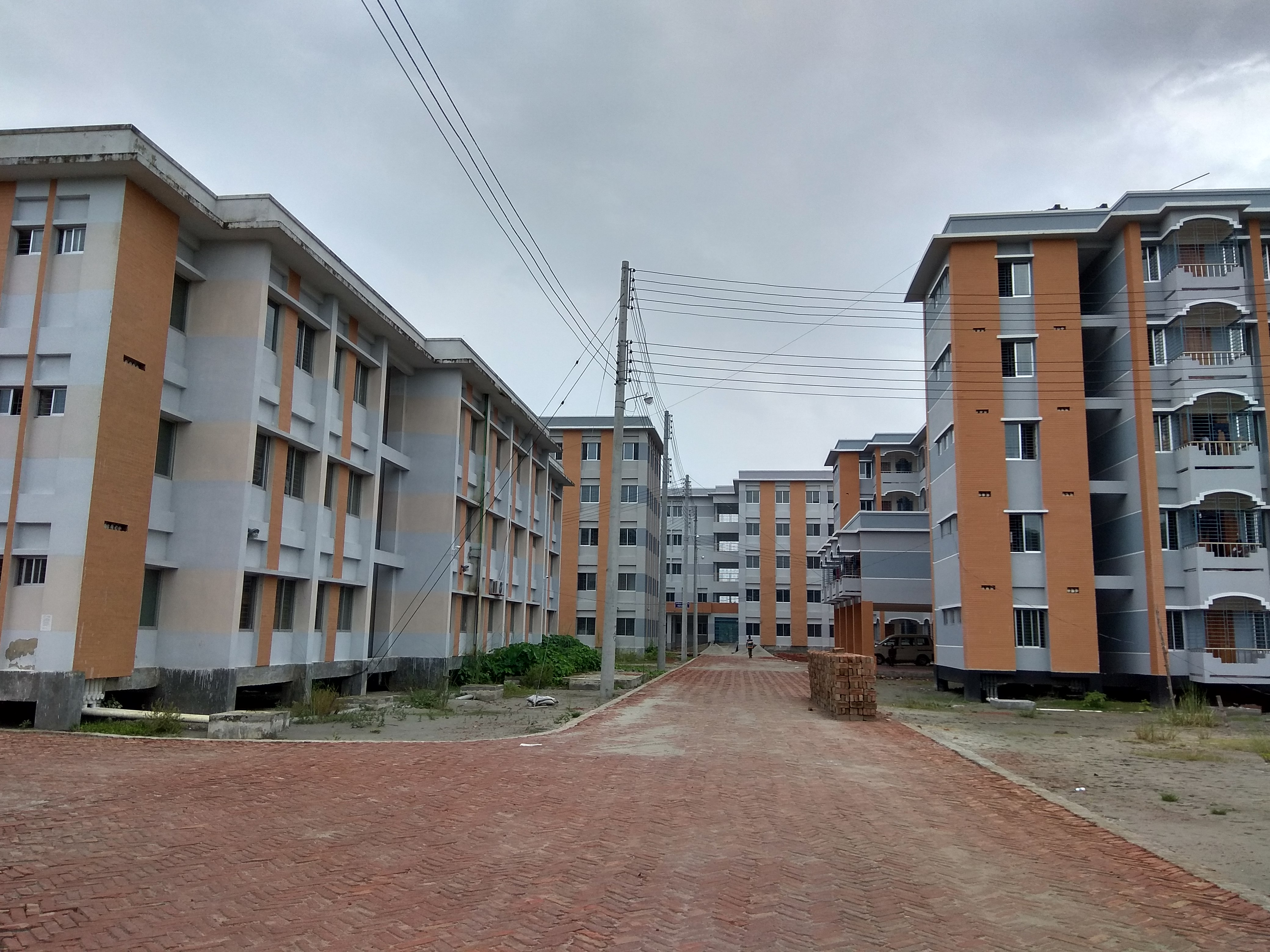 Barisal Engineering College is a public undergraduate college in the Barisal District of Bangladesh. It is affiliated with the Faculty of Engineering and Technology of the University of Dhaka.